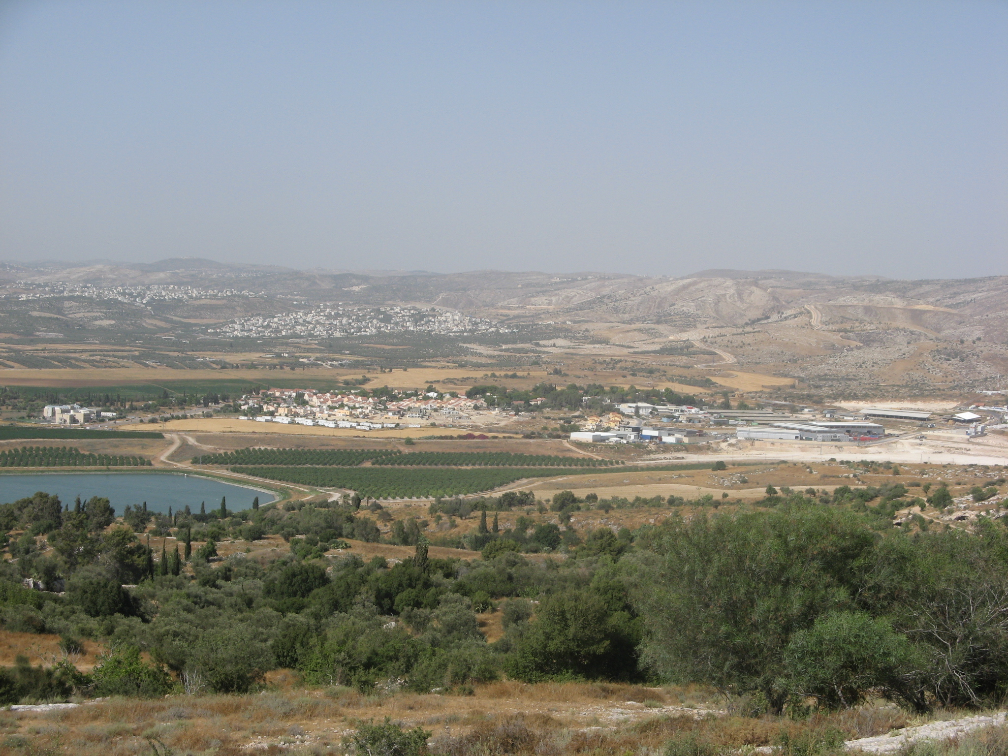 Mevoa Horon, Beit Likya and Beit Sira from Canada park